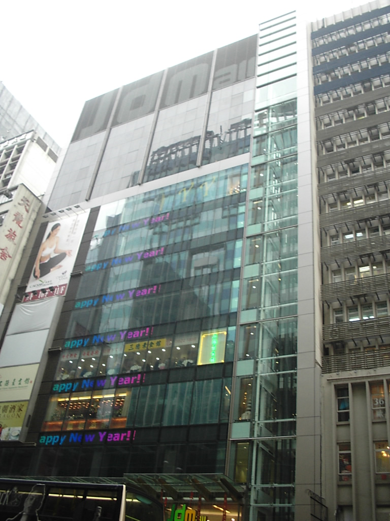 JD Mall